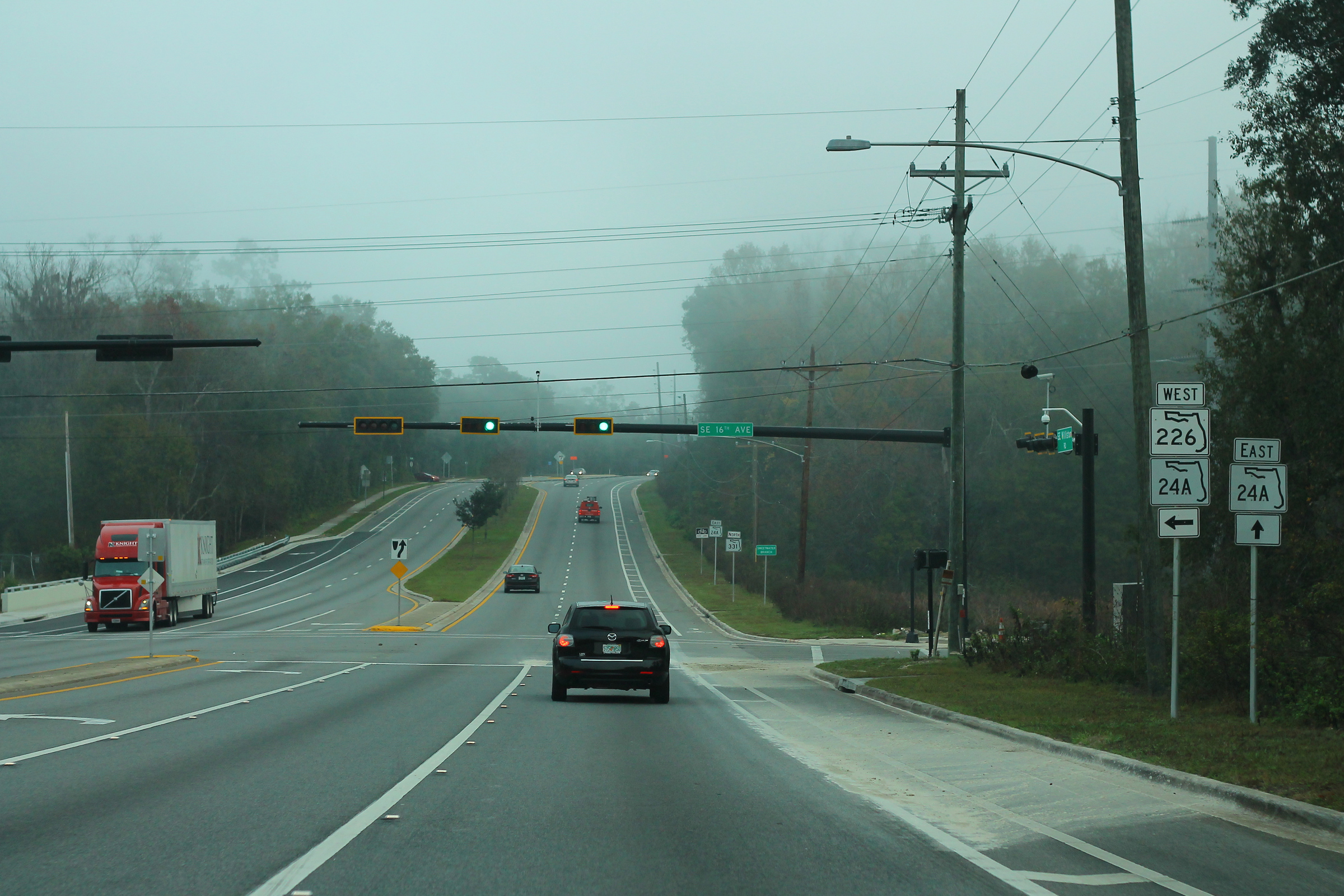 FL331nRoad-FL226wFL24wSigns-FL24Ae